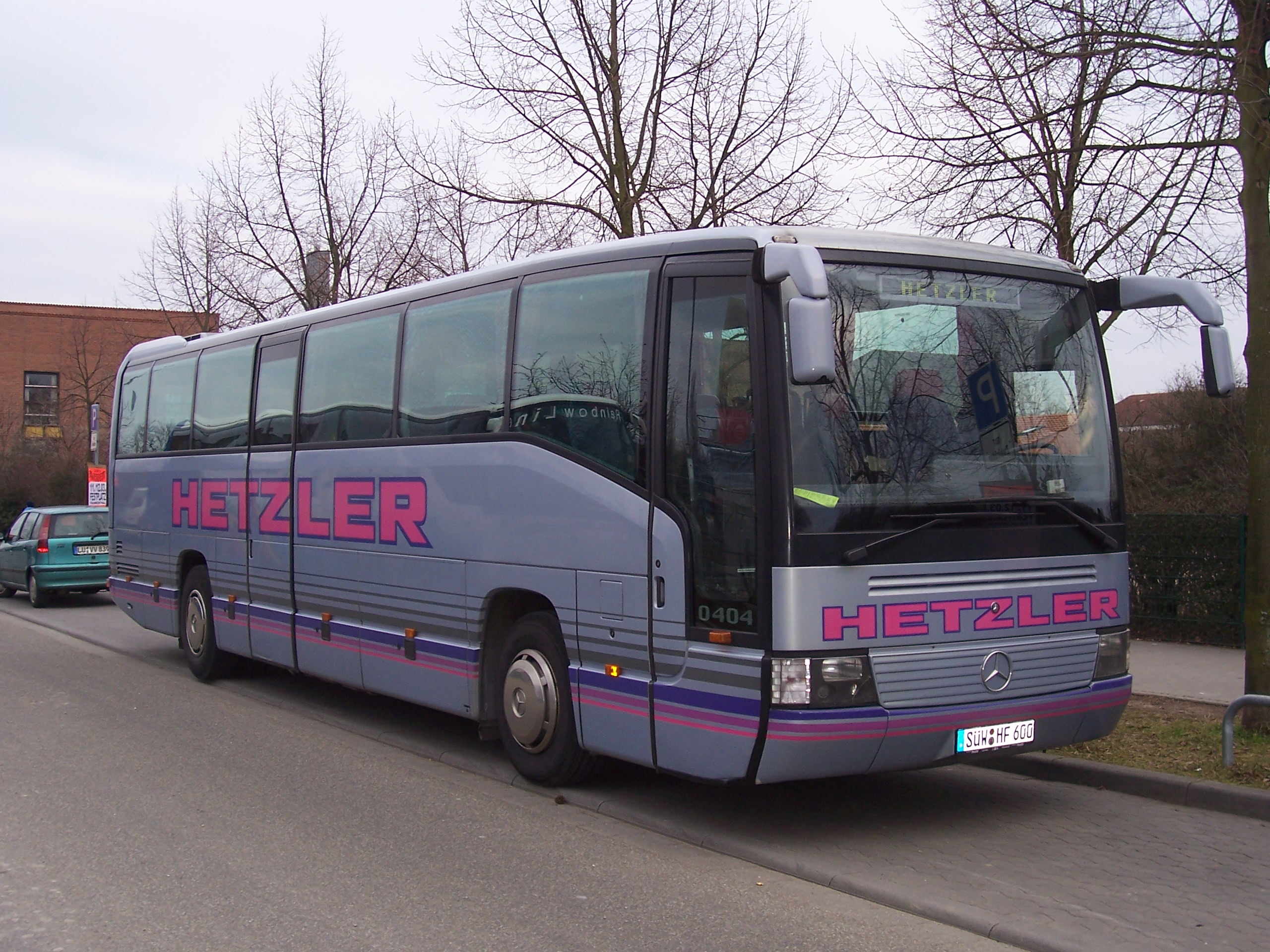 A Mercedes-Benz O 404 in Frankenthal Germany My own photo